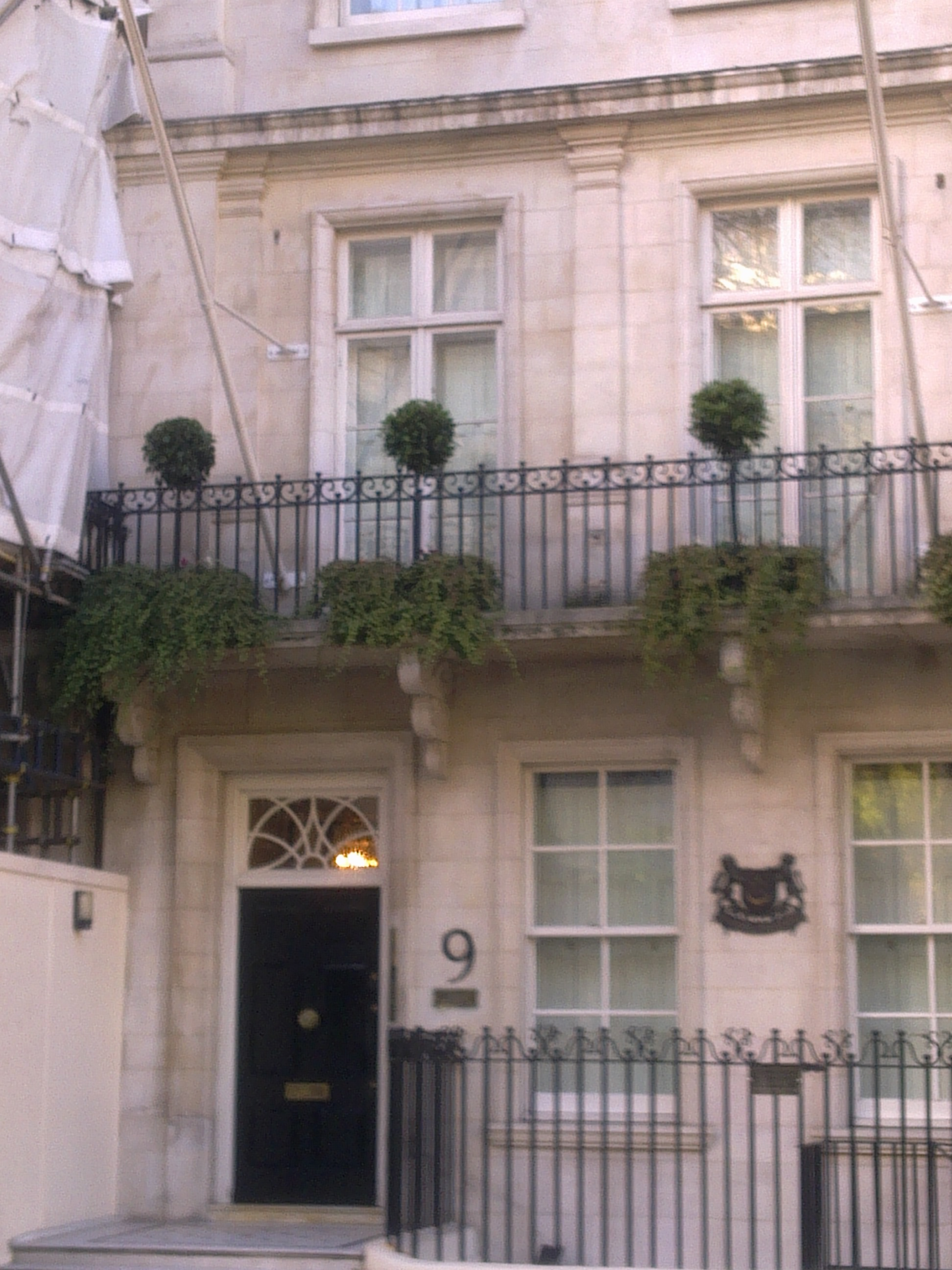 HC of Singapore in London 1